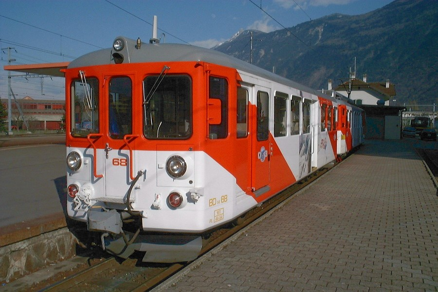 Zug der MC in Martigny own photo